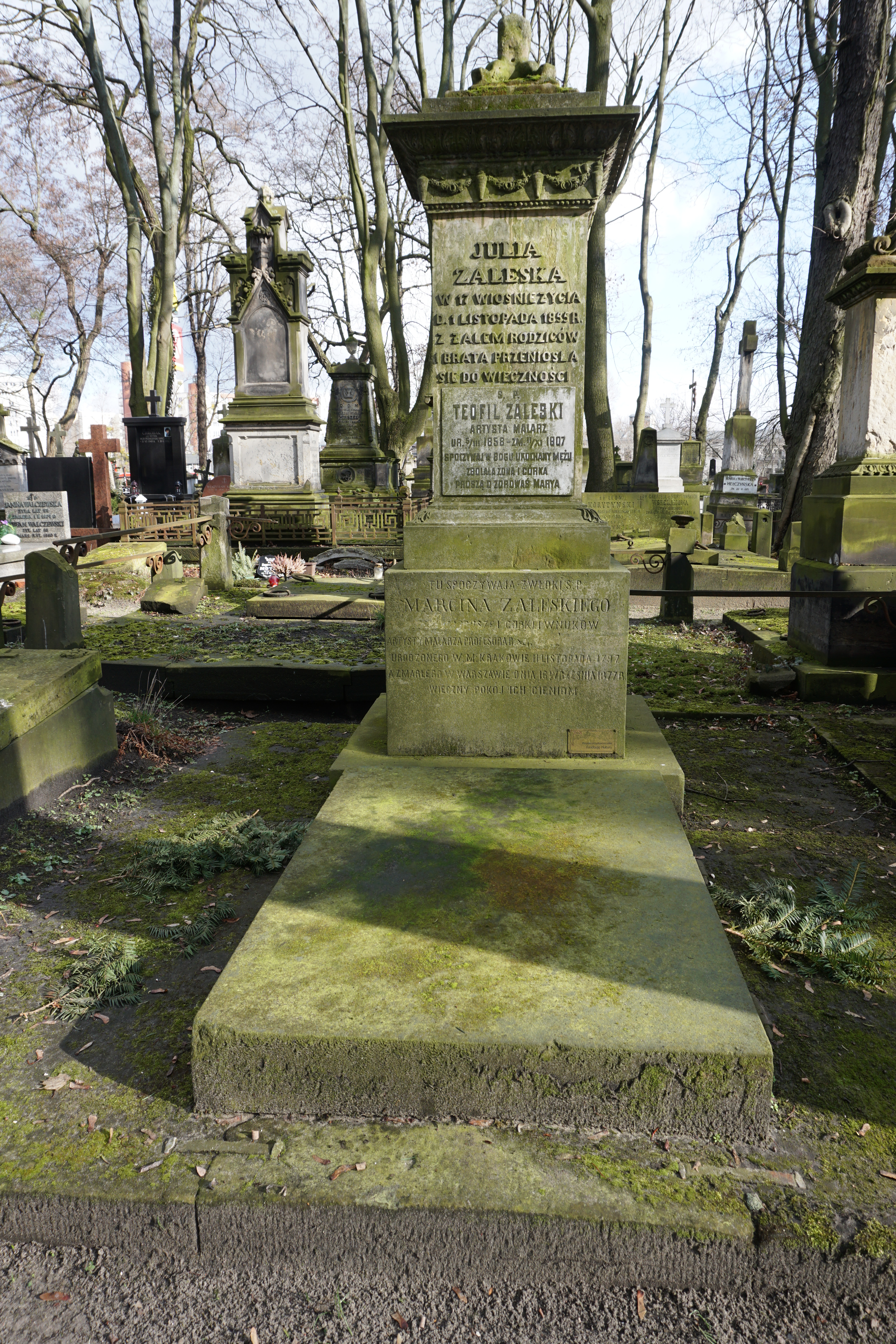 The grave of Marcin Zaleski at the Powązki Cemetery (section 158, row 6, grave 26, 27)